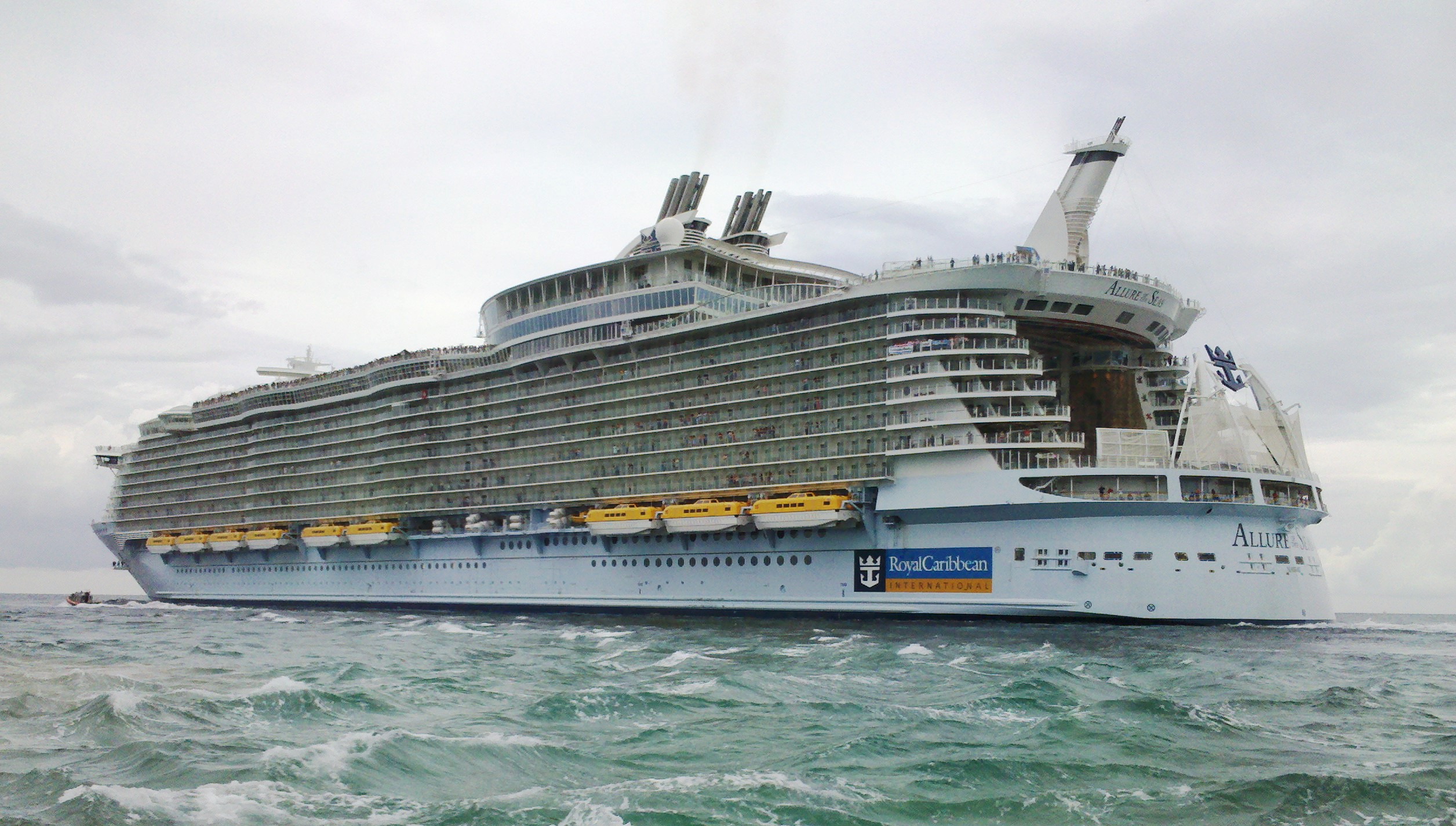 Allure of the Seas leaving Port Everglades in Fort Lauderdale